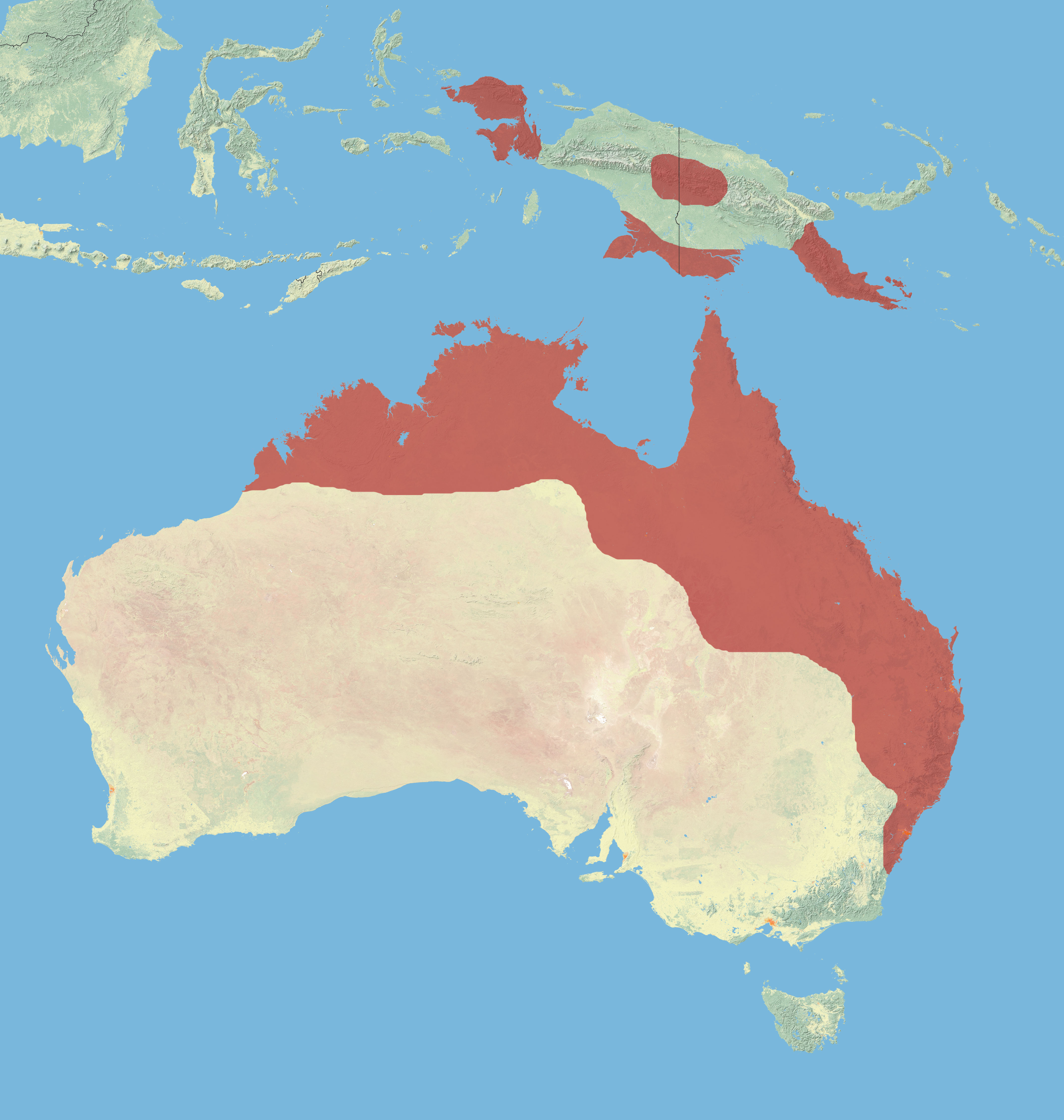 The Distribution of the Chestnut-breasted Mannikin According to Birdata